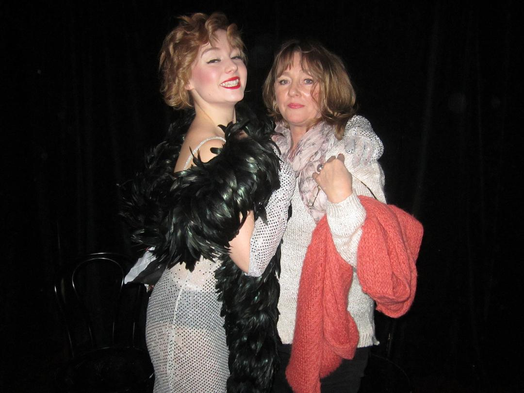 Swedish actress Pia Oscarsson (right) and daughter Niki LovildPlace: CabarEng's 2013 venue at Michelangelo, Västerlånggatan 62, Stockholm, Sweden